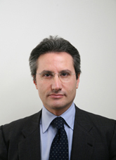 Stefano Caldoro (2008)